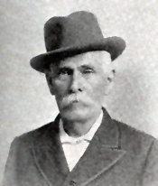 William Franklin Strowd, US Representative from North Carolina